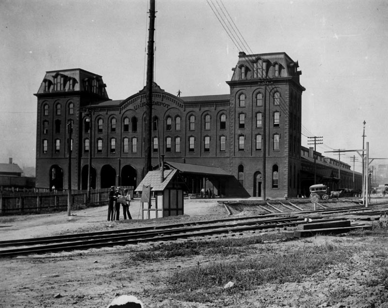 The second Columbus Union Station between 1875 and 1890